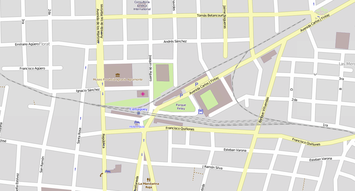 This map may be incomplete, and may contain errors. Don't rely solely on it for navigation.